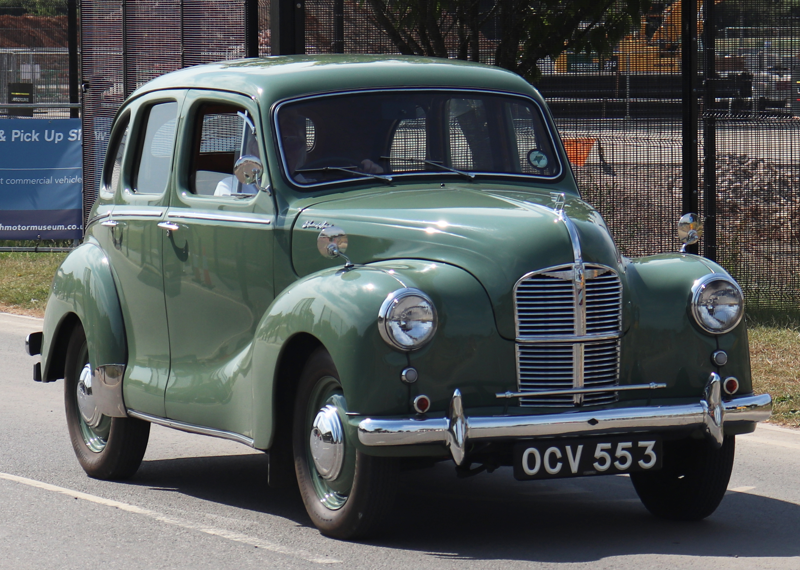 1951 Austin A40 1.2 Devon Taken at the British Motor Museum BMC & Leyland Show 2018, Gaydon